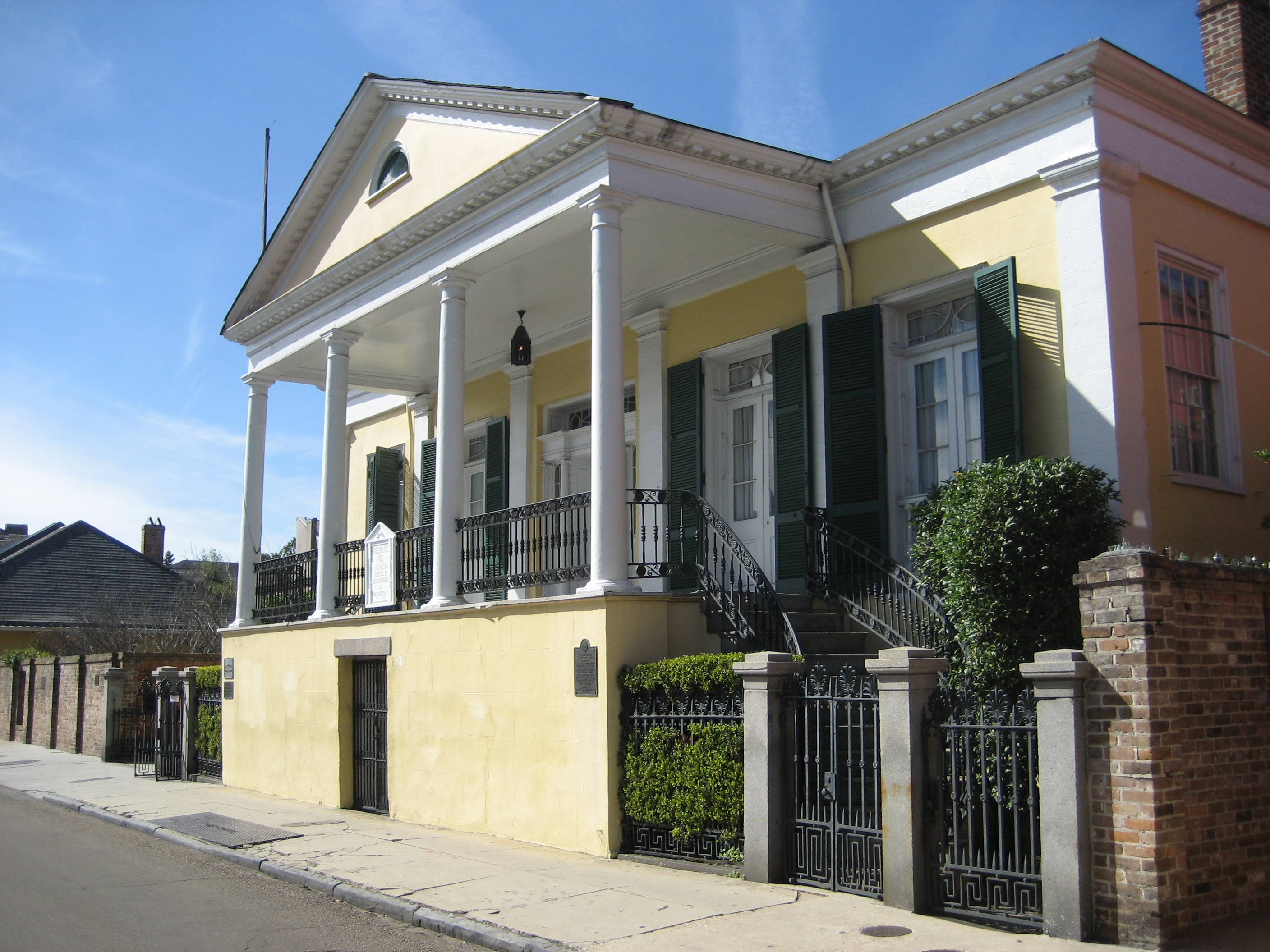 French Quarter, New Orleans. House formerly residence of General P.G.T. Beauregard and later writer Francis Parkinson Keyes.